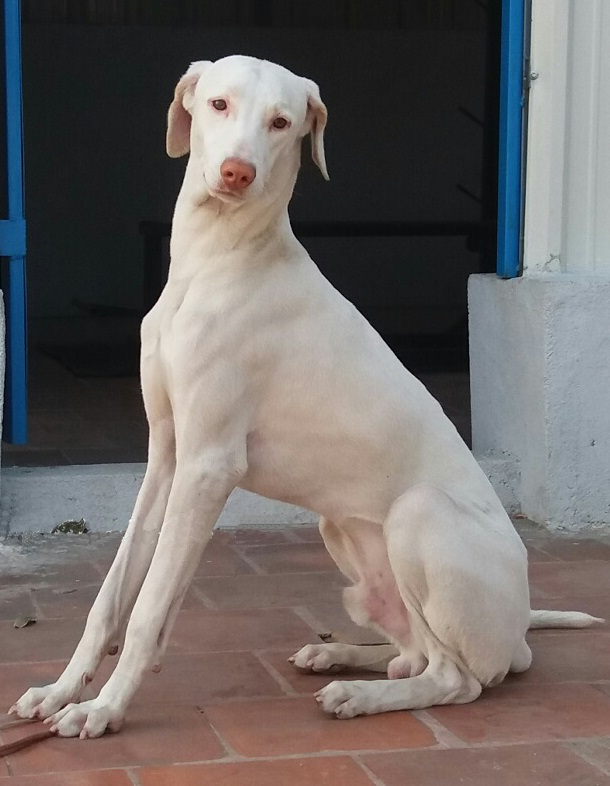 A young male adult Rajapalayam dog called Bheem.